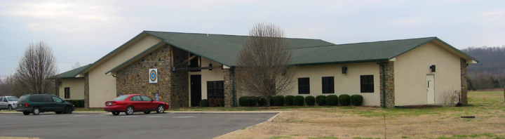 United Keetoowah Band Tribal Complex, West Willis Road, Tahlequah, Oklahoma